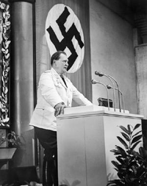 Reichsmarshal Hermann Goering addressing the Reichstag in Berlin.